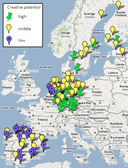 New Creative Index - the geographical allocation